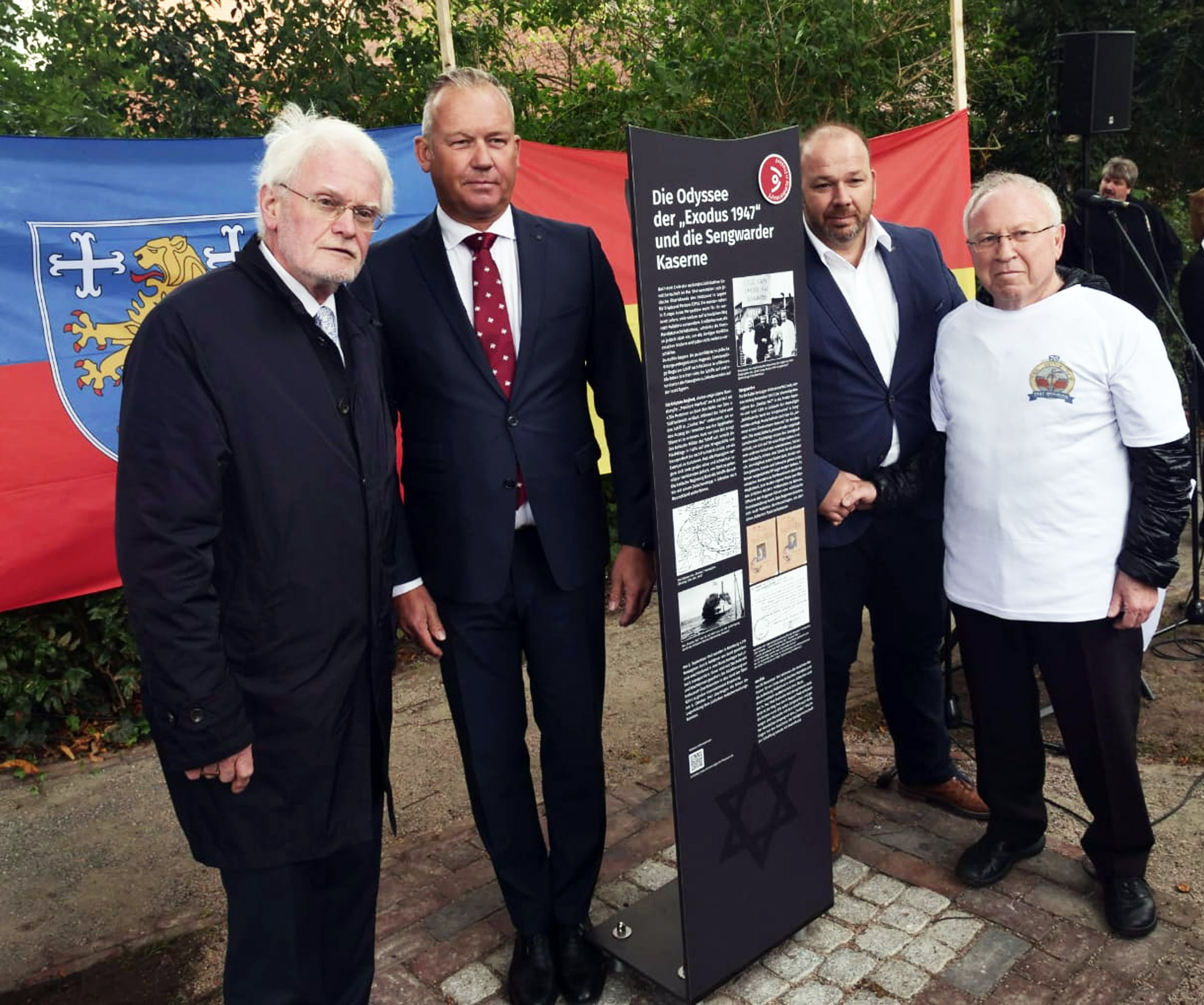 Mayor of Wilhelmshaven and Mayor of Sangwarden after the unveiling ceremony from the memorial plaque of the Exodus-1947